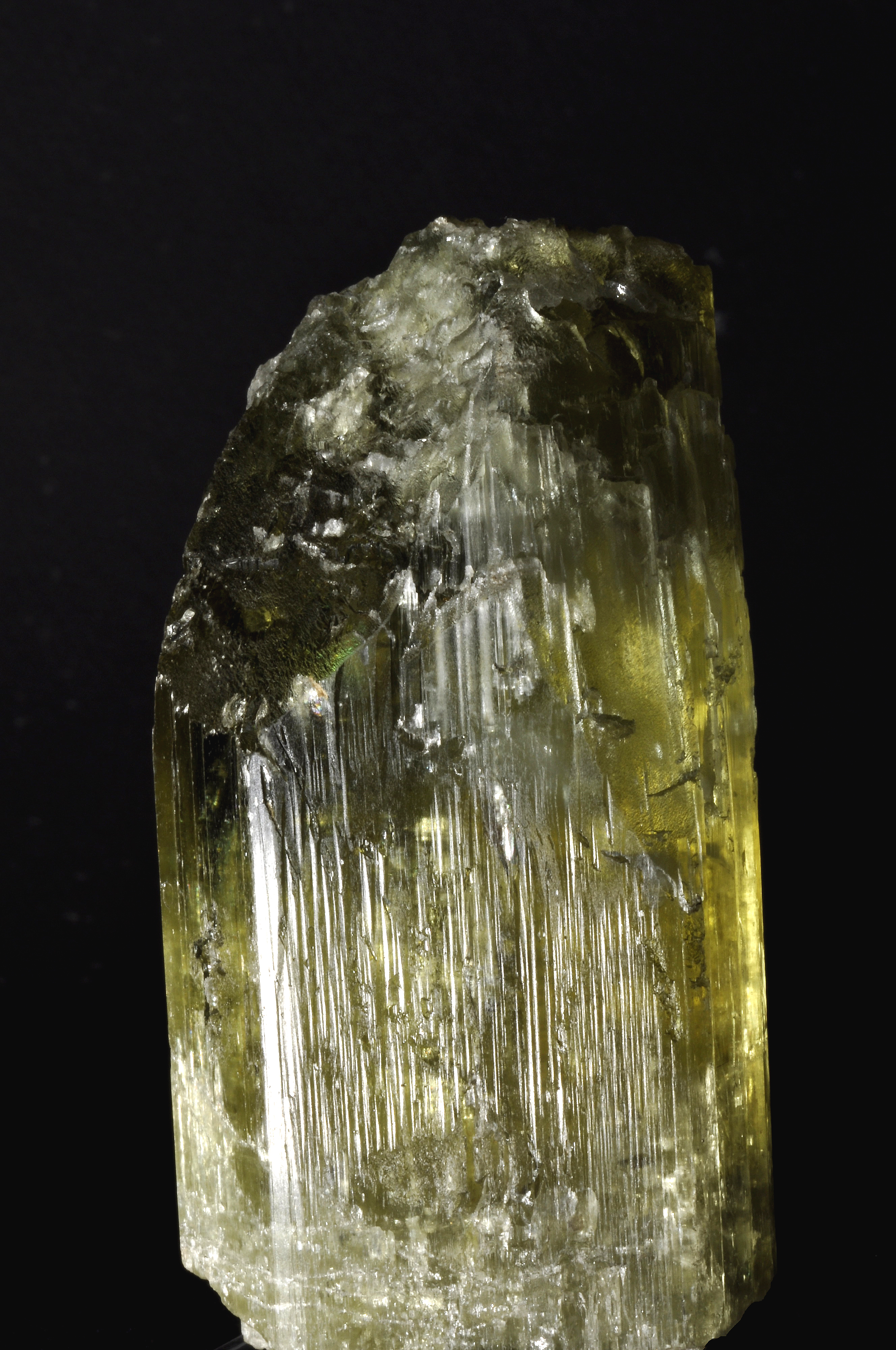 spodumene var. hiddenite : Paprok Mine (Papruk Mine ; Paprowk Mine), Kamdesh District, Nuristan Province (Nurestan Province ; Nooristan Province ; Nuristan), Afghanistan